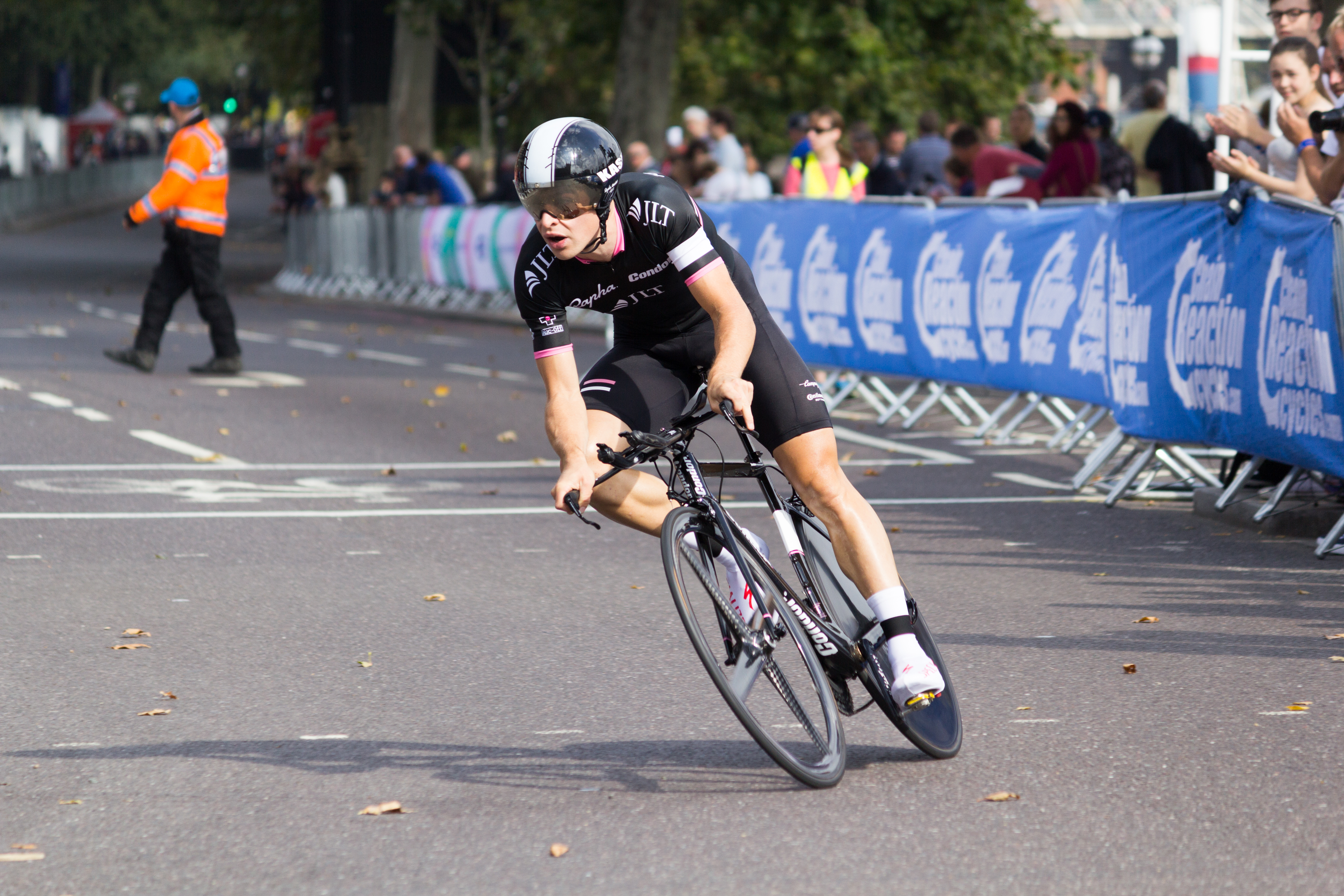 Tour of Britain 2014 stage 8a - London time trial